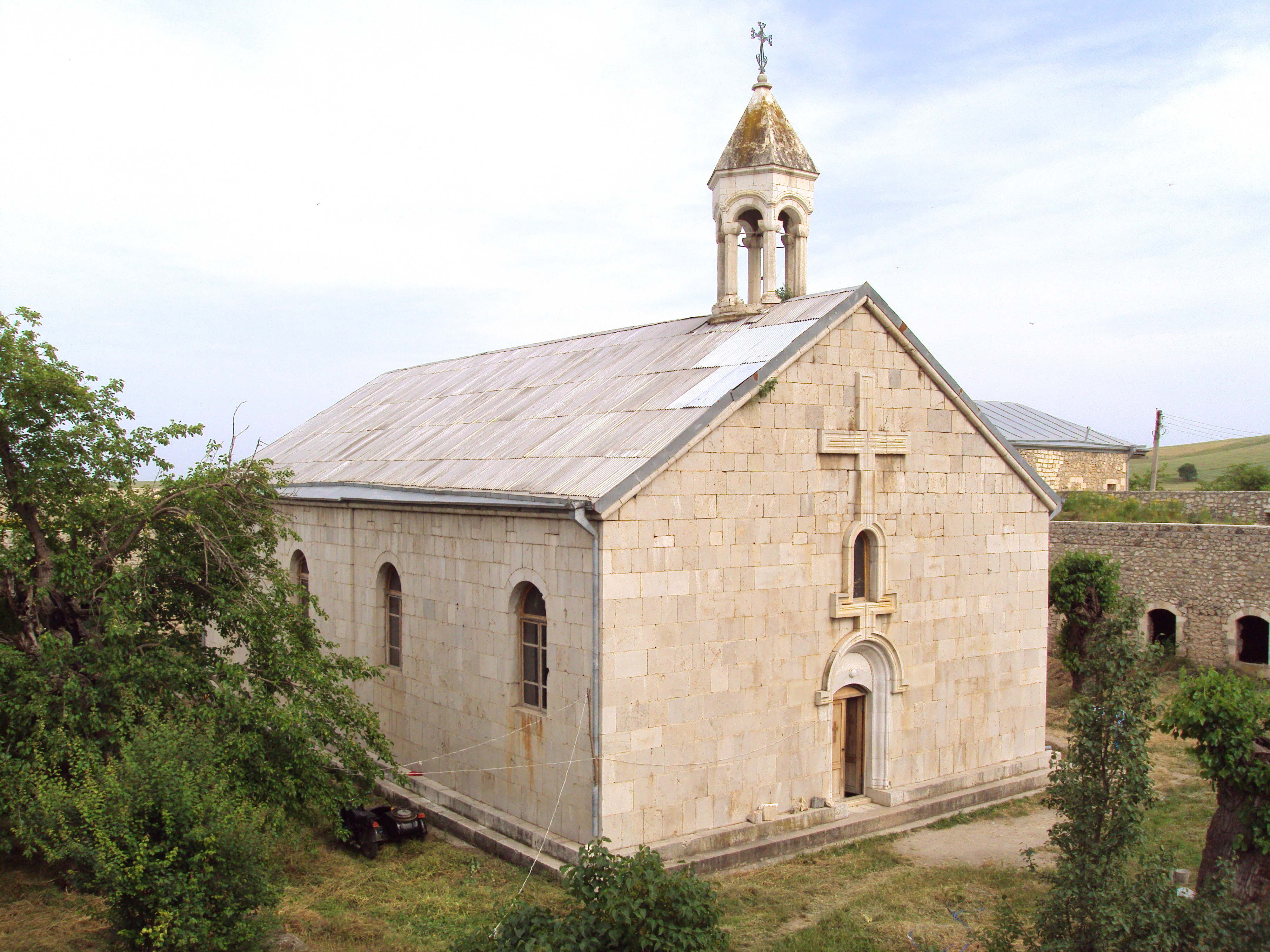 Amaras monastery complex, 4-19 cc.